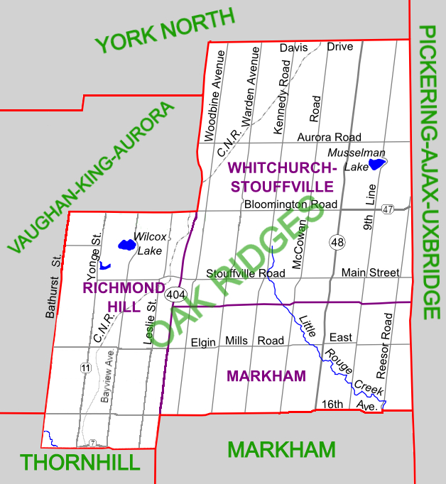 Map of the Oak Ridges riding (1997-2004)